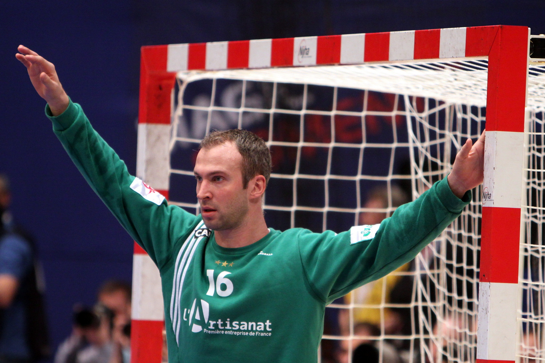 Thierry Omeyer (THW Kiel), France national handball team